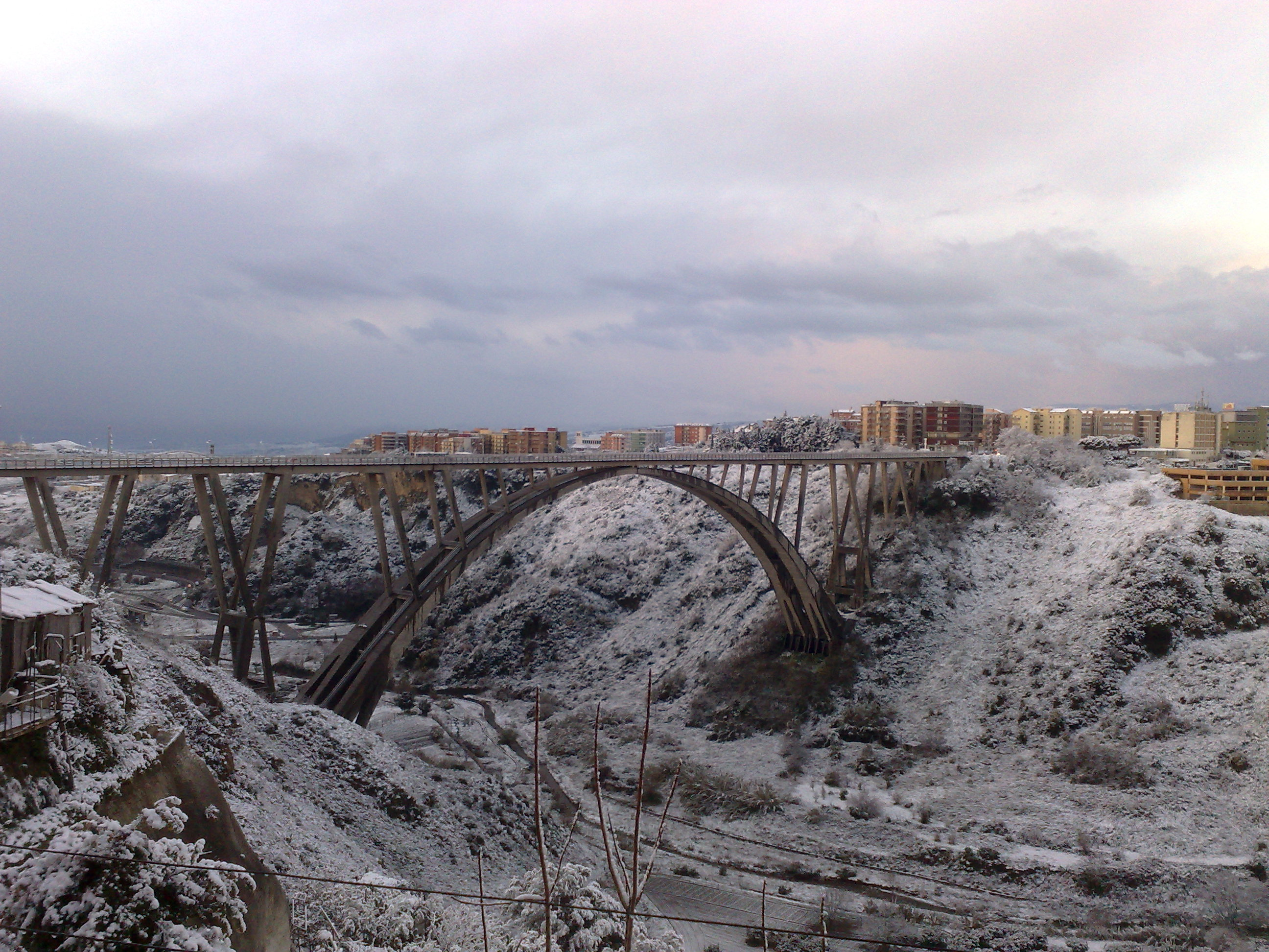 Catanzaro, Ponte Morandi dopo nevicata dicembre 2010